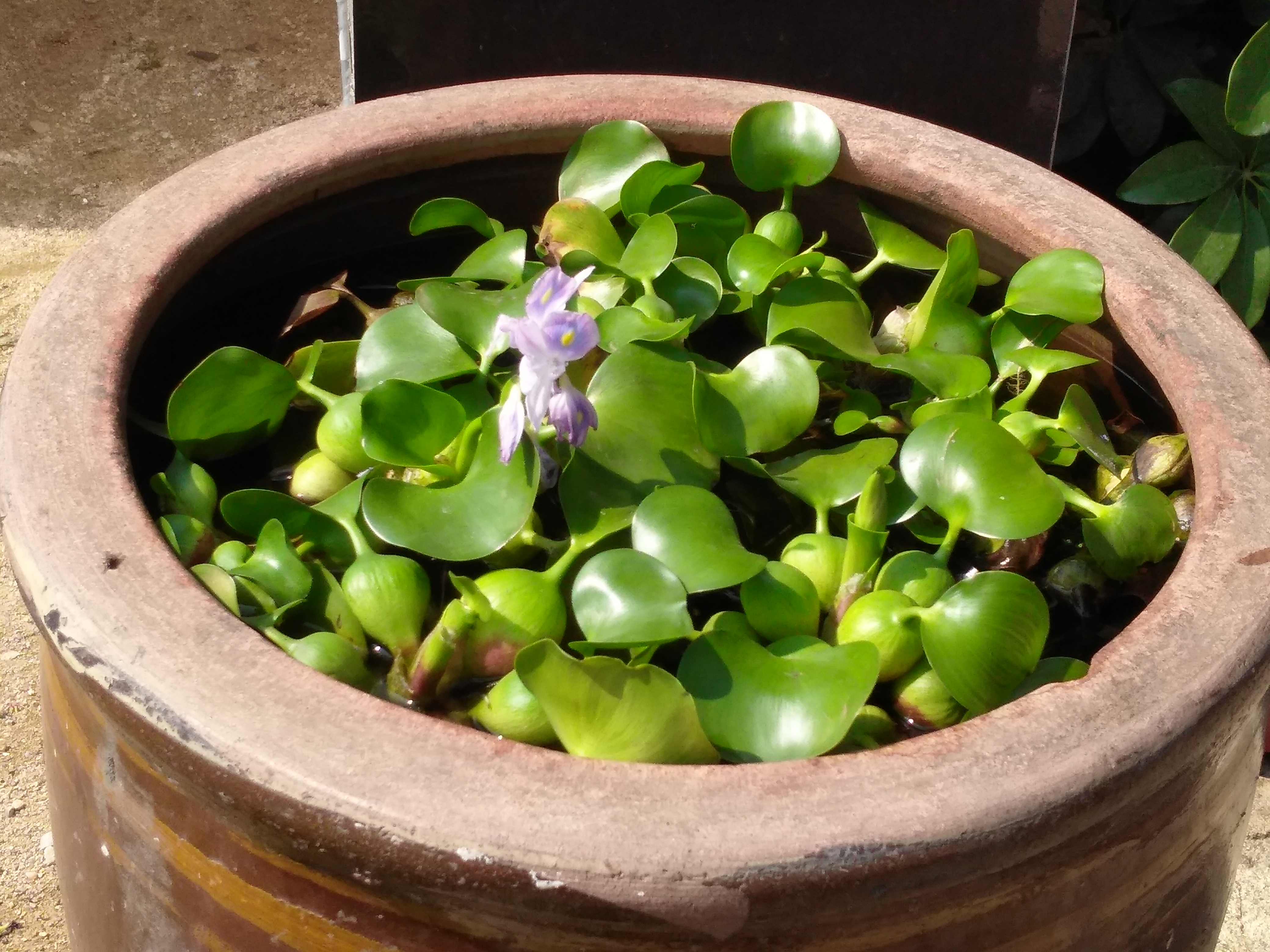 Eichhornia crassipes